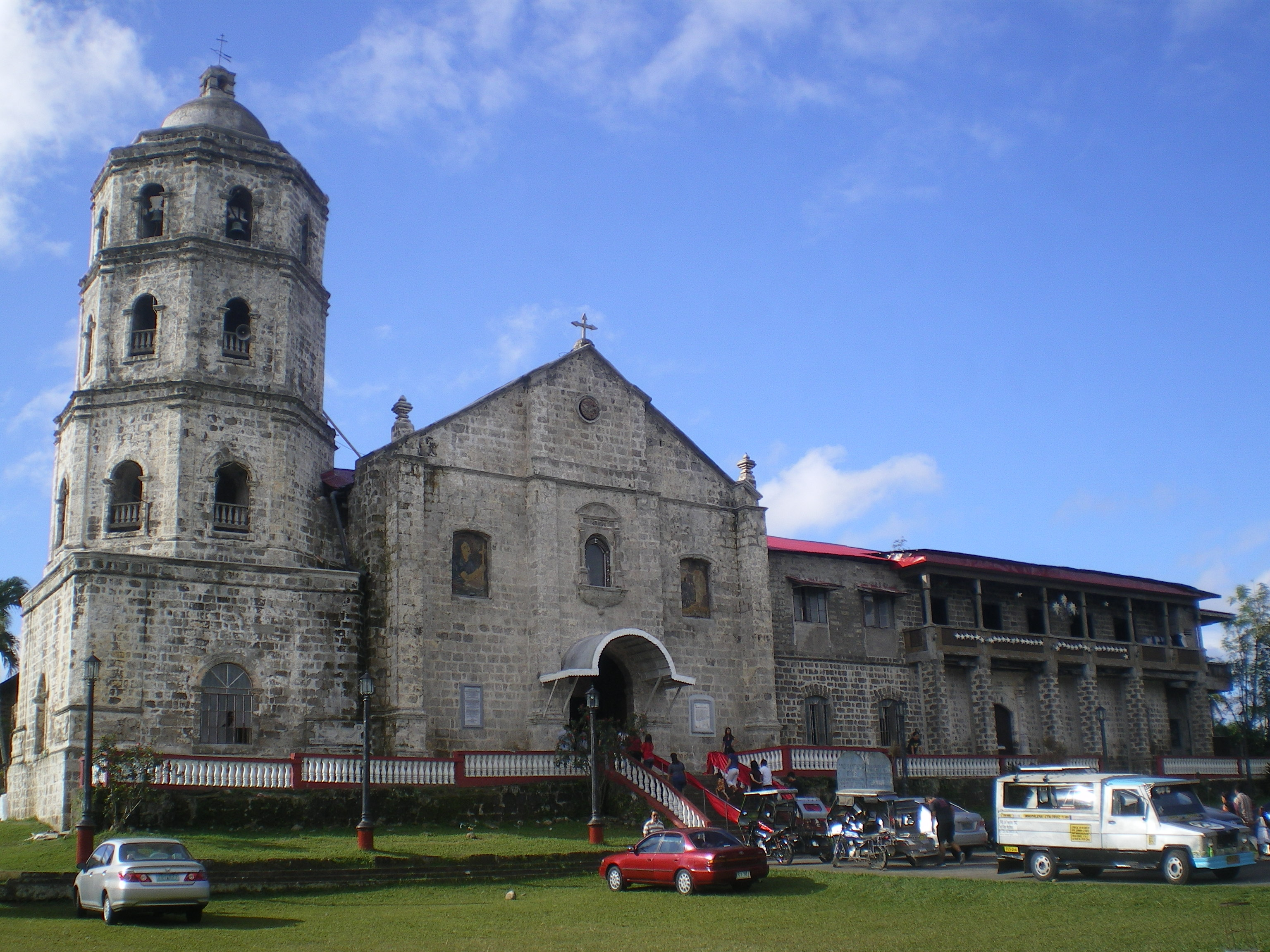 The Santa Maria Magdalena Parish Church Is A Roman Catholic Church In Magdalena Laguna.